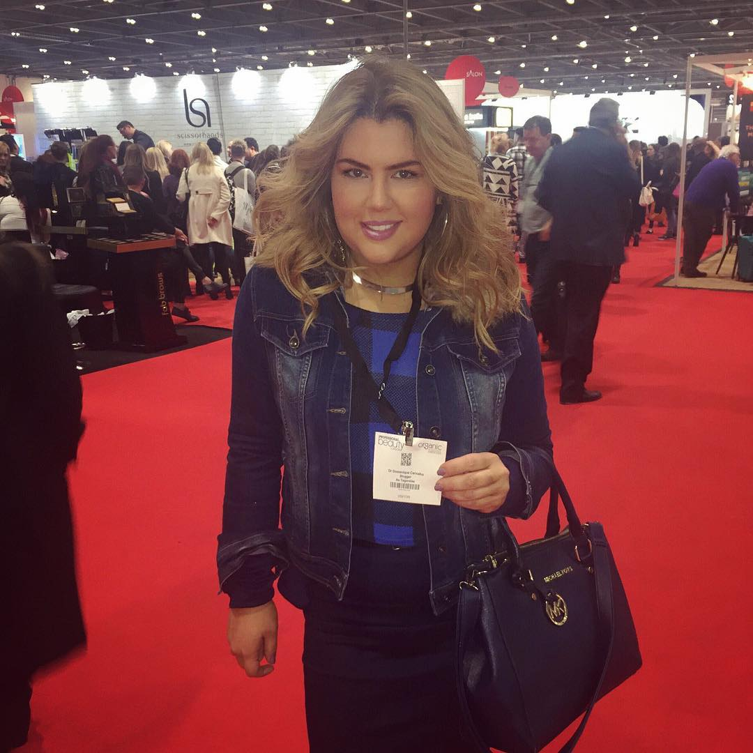 Domenique Heidy at the Professional Beauty London. This picture was posted at Domenique Heidy's official Flickr account under a public domain license. I contacted the copyright owners who gave me authorization to publish the image here. They also compromised to send an email to the WikiCommons confirming that authorization.